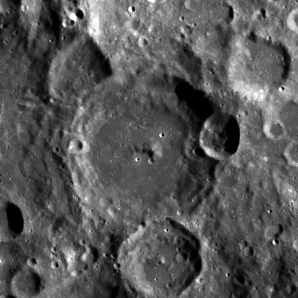 Plummer lunar crater - LROC image